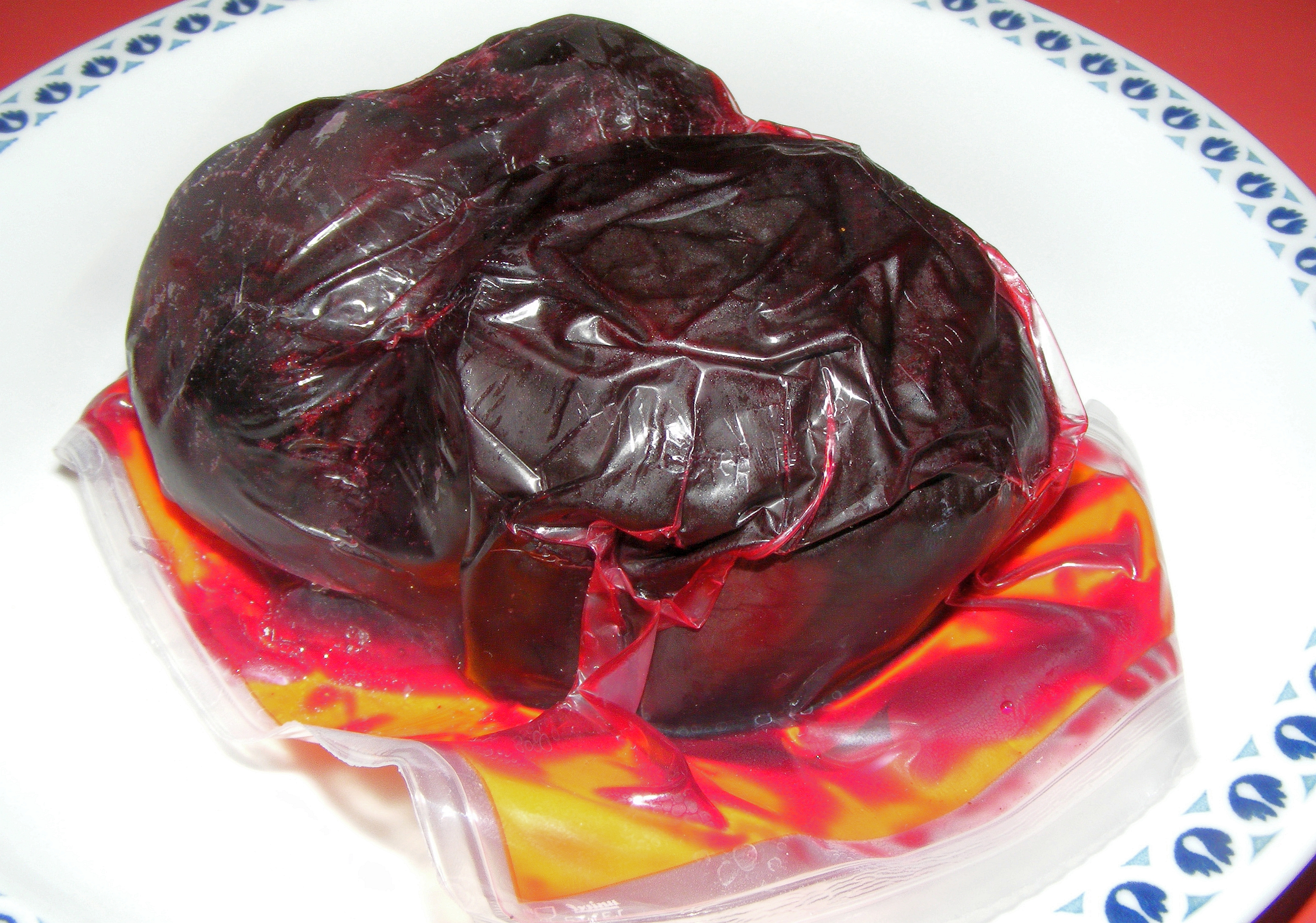 Cooked and packed beetroot